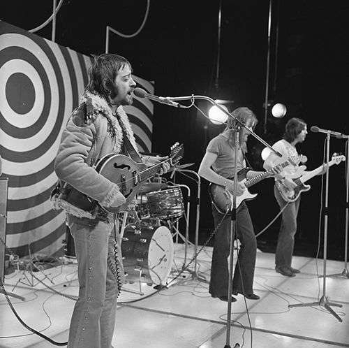 Fairport Convention in AVRO's TopPop (Dutch television show) in 1972